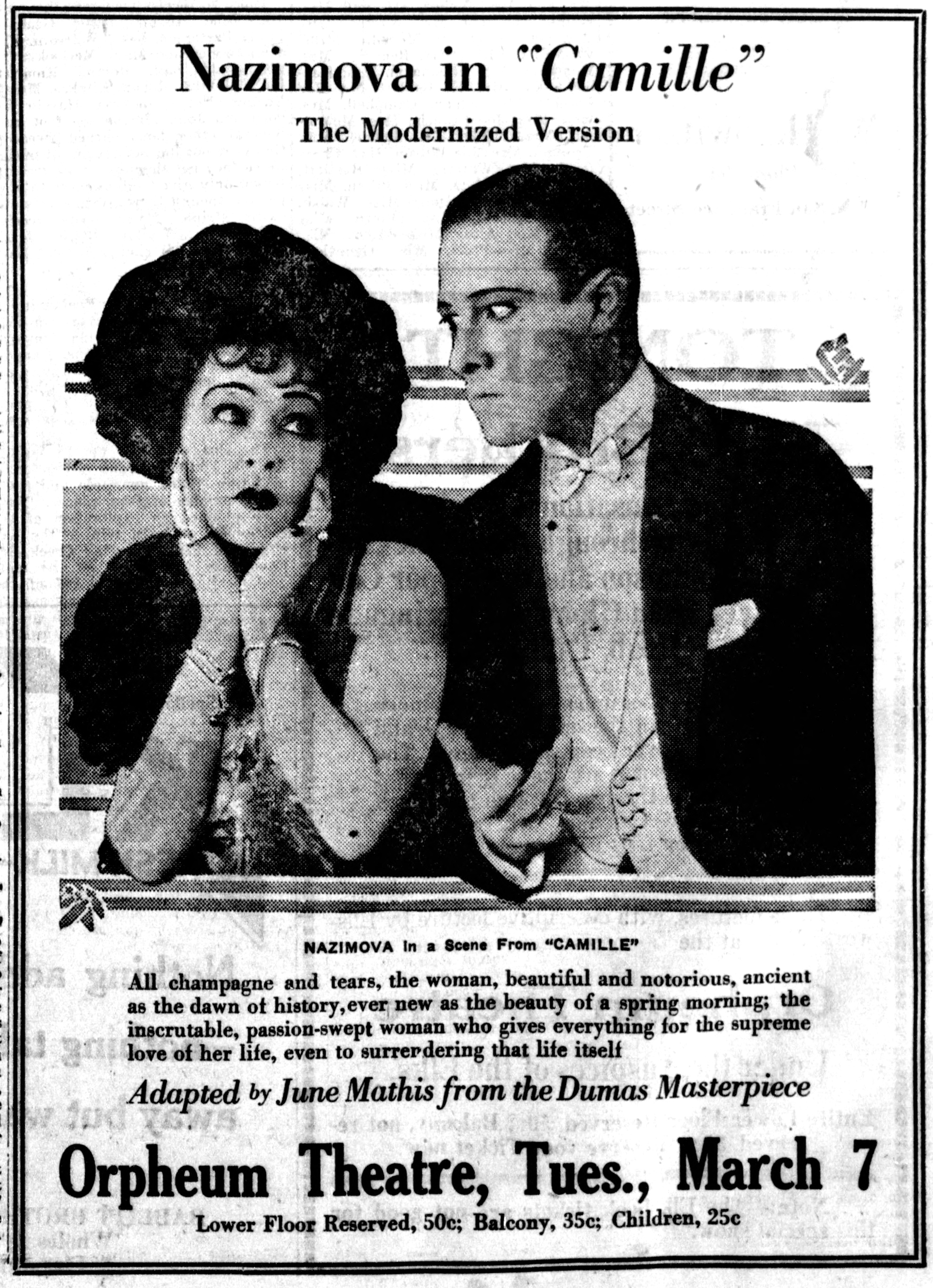 Camille is a 1921 silent film starring Rudolph Valentino and Alla Nazimova. This is an advertisement for the film from a newspaper.